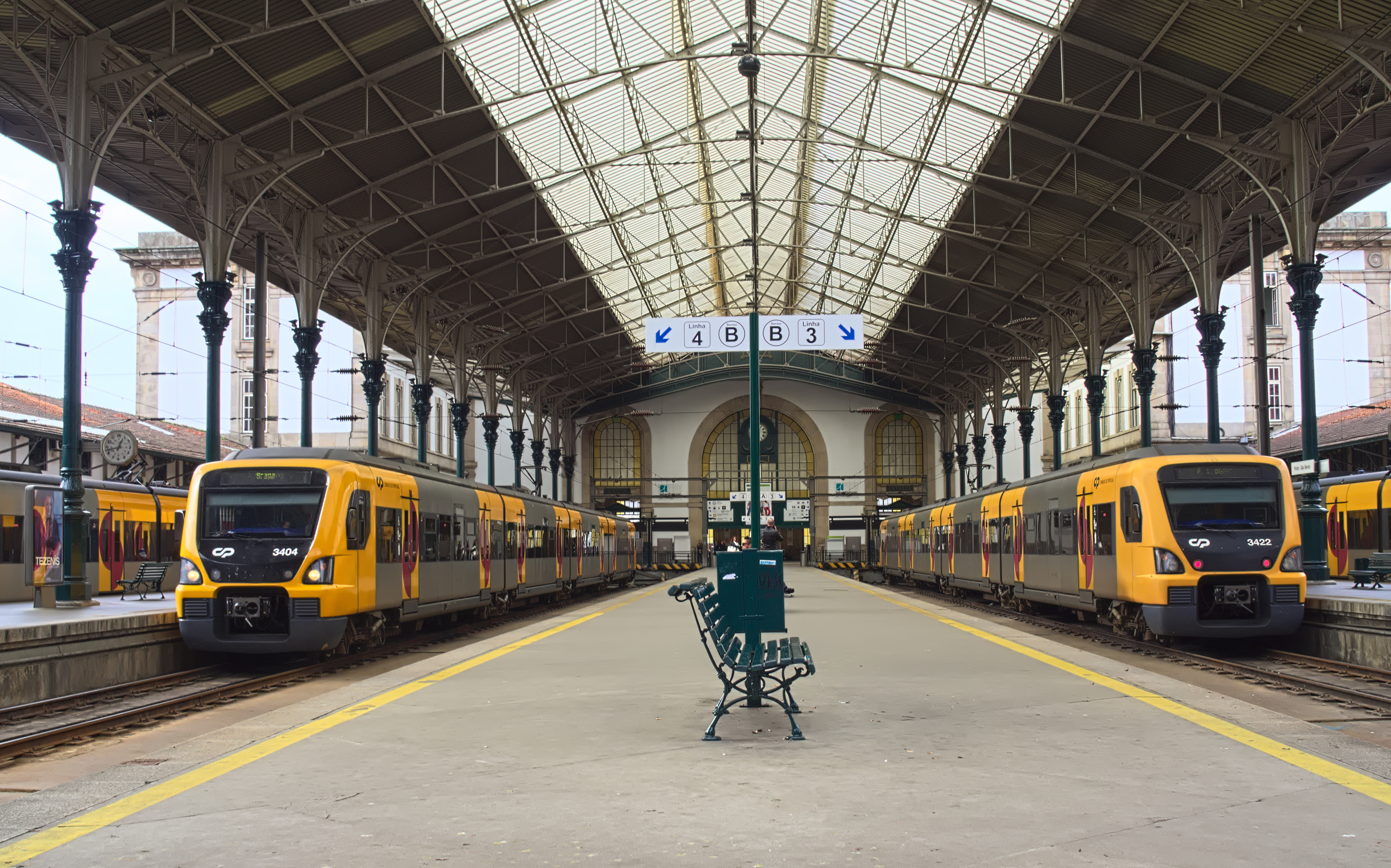 Porto São Bento railway station